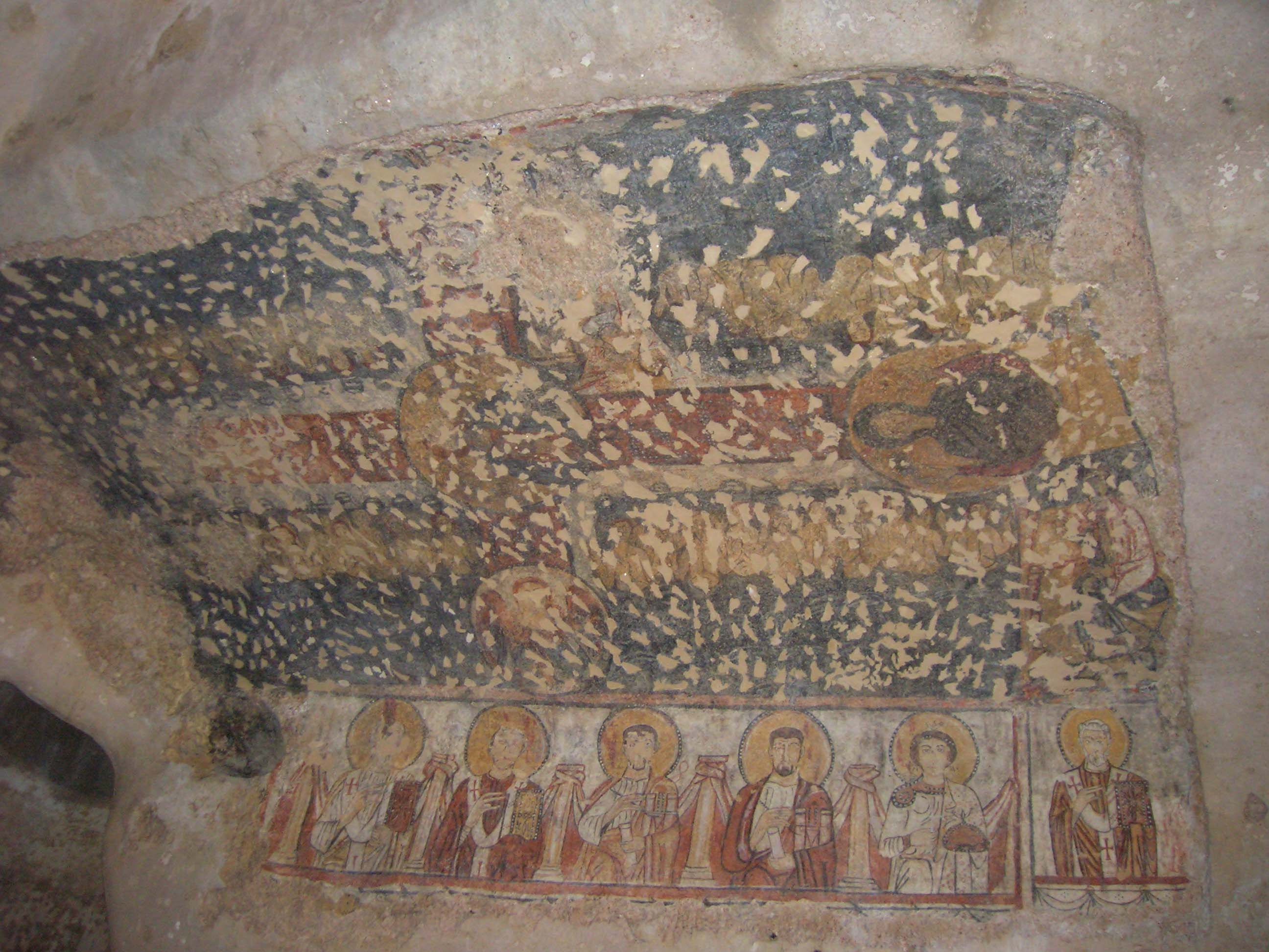 Relics of 8th/9th century byzantine frescos in the catacombs of Saint Lucy at Syracuse, Italy.